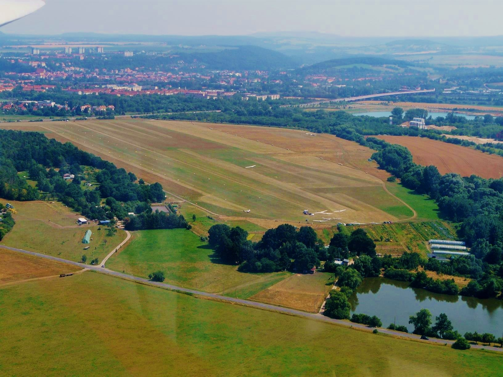 Pirna-Praschwitz airfield with gliders in action.